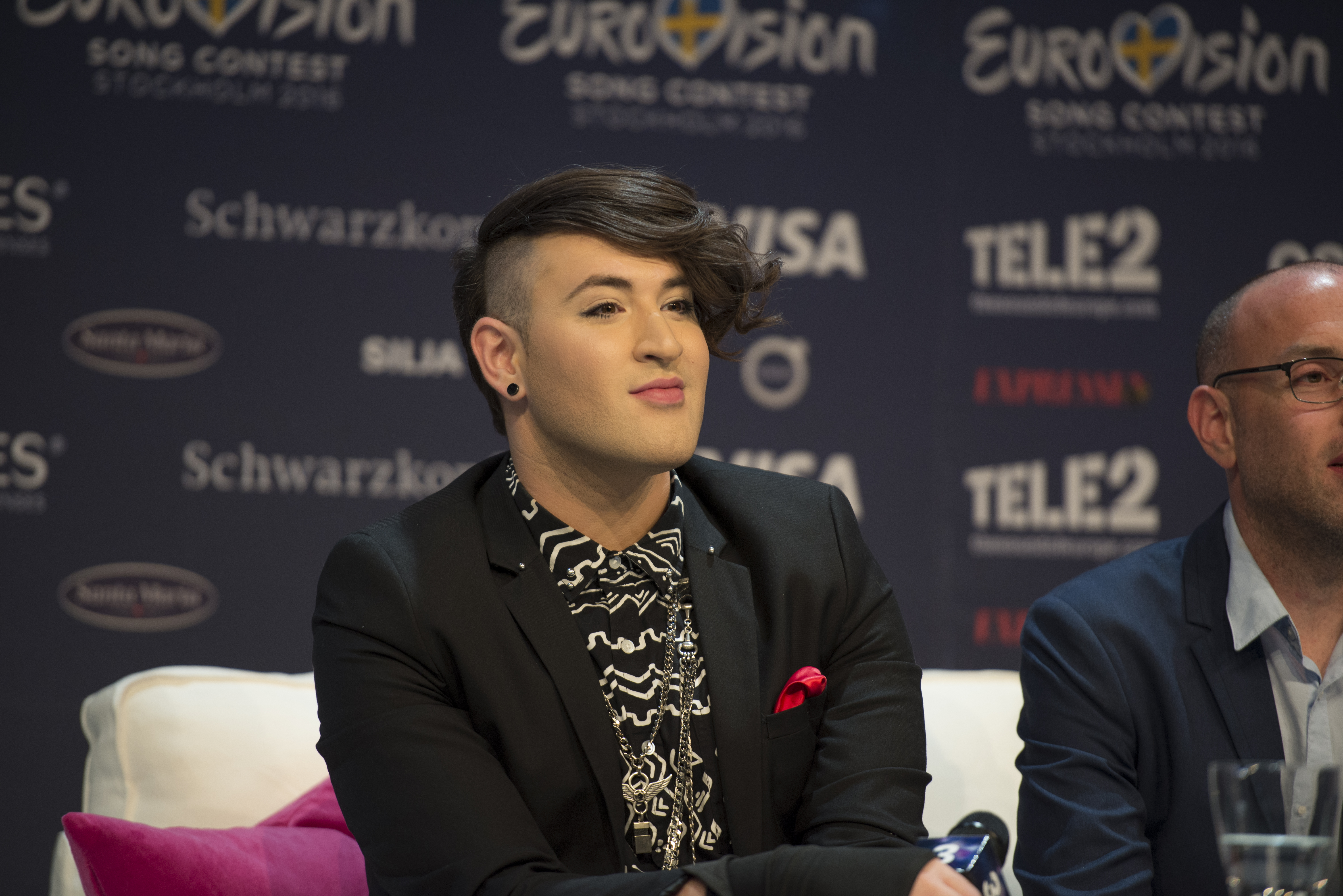 Hovi Star at a Meet & Greet during the Eurovision Song Contest 2016 in Stockholm. (Help translate this text)